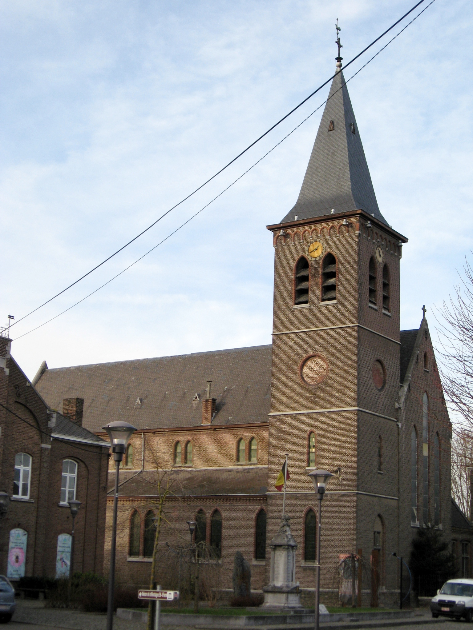 Church of Saint Remigius in Lanaye, Visé, Liège, Belgium